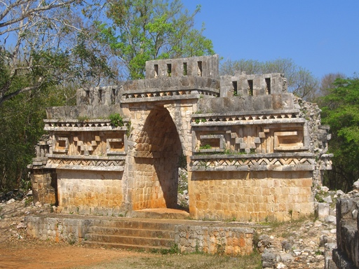 Arch of Labna, Yucatán